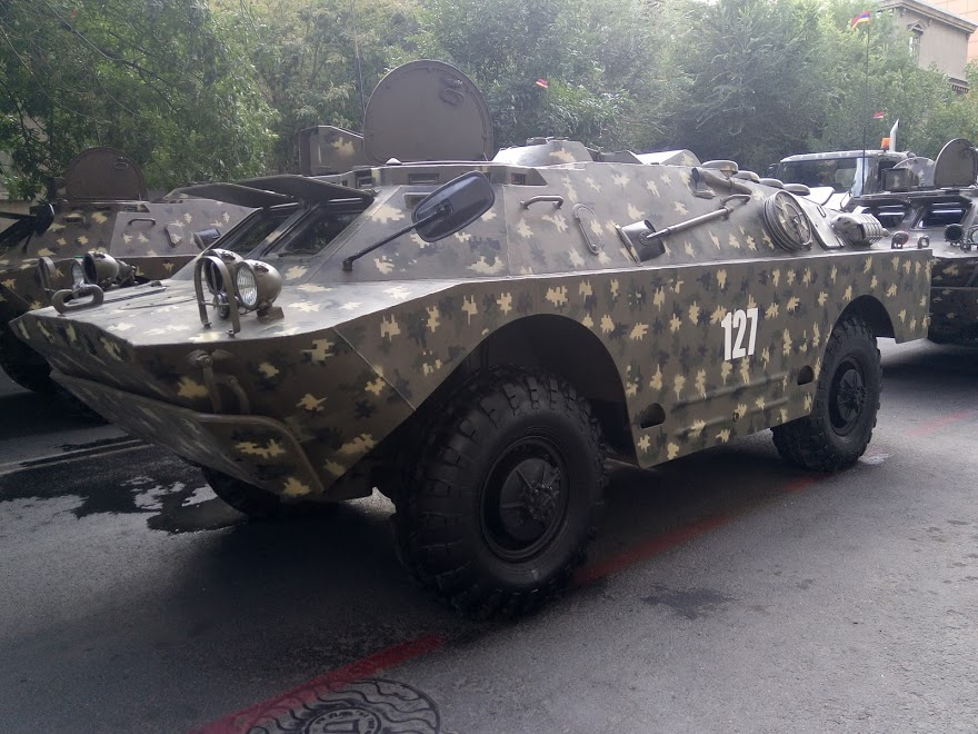 BRDM-2 armored vehicle